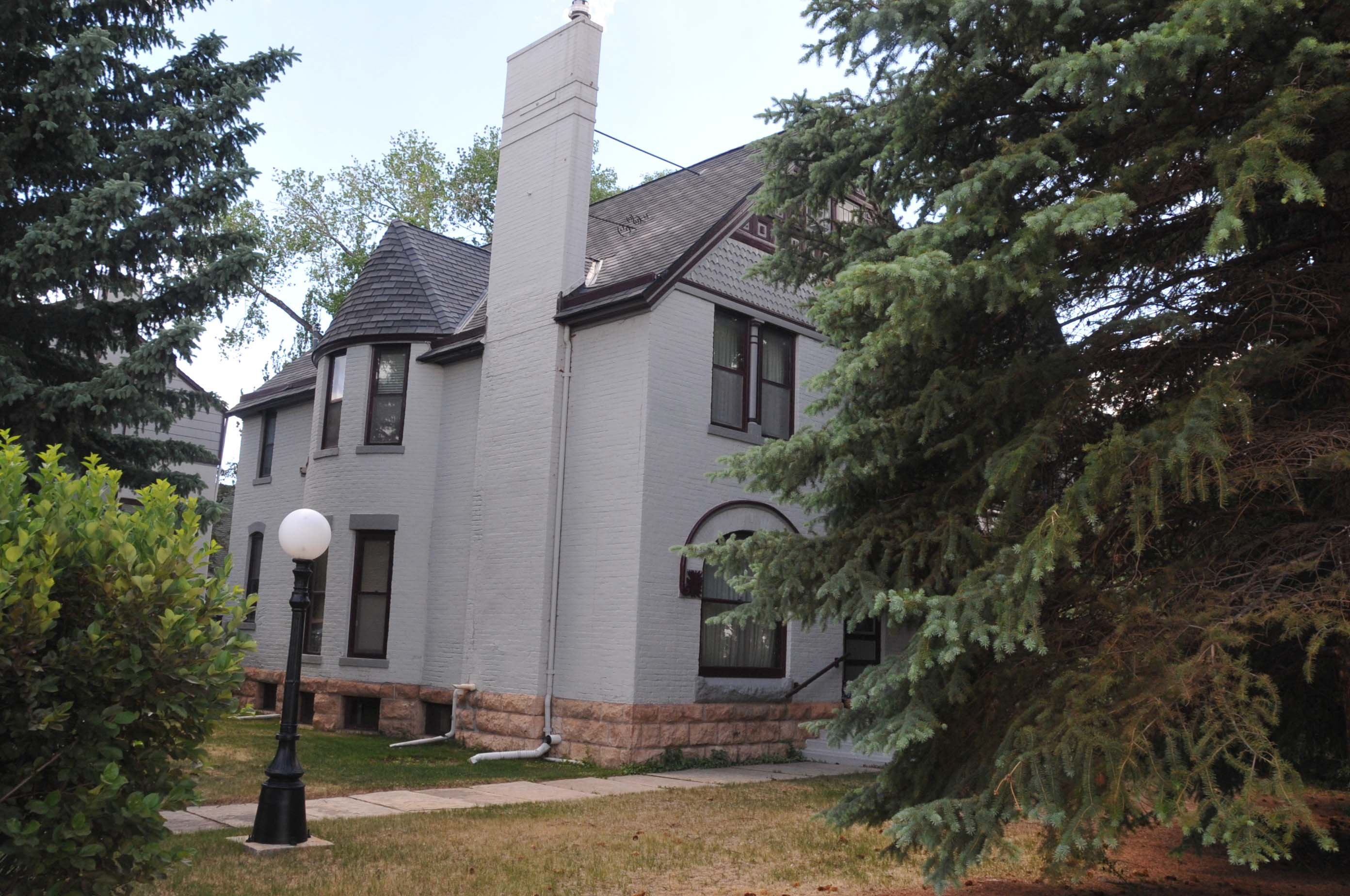 MANSION 1891 VICTORIAN; QUEEN ANNE